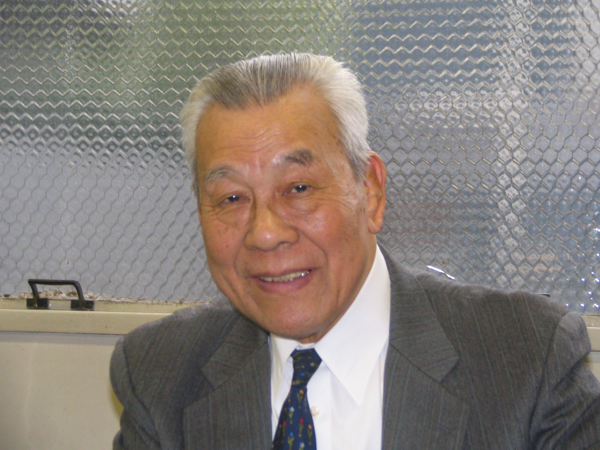 Toshiro Daigo 10th dan Kodokan judo